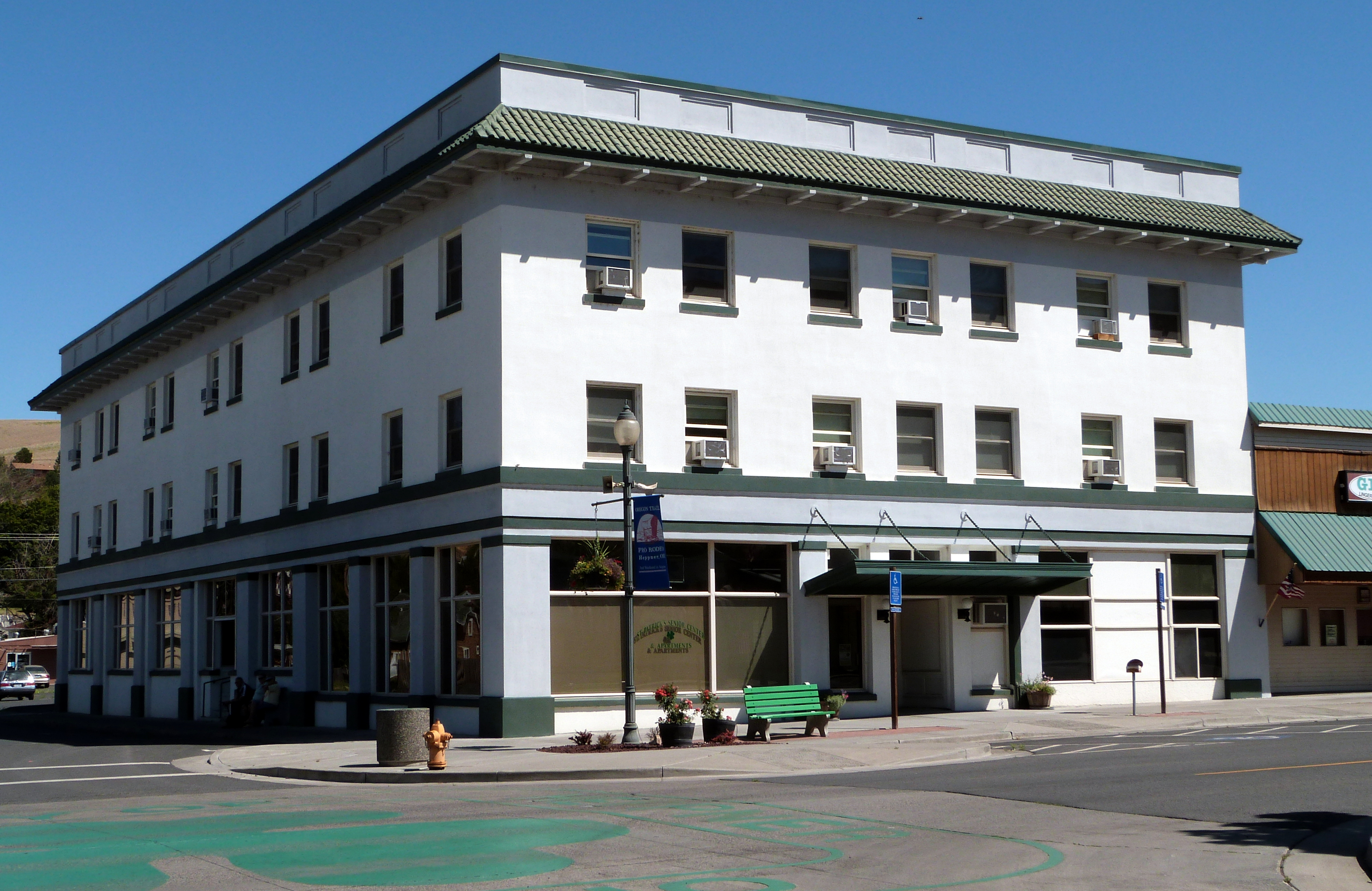 The historic Heppner Hotel (built 1919), located at 124 North Main Street in Heppner, Oregon, United States, is listed on the US National Register of Historic Places.